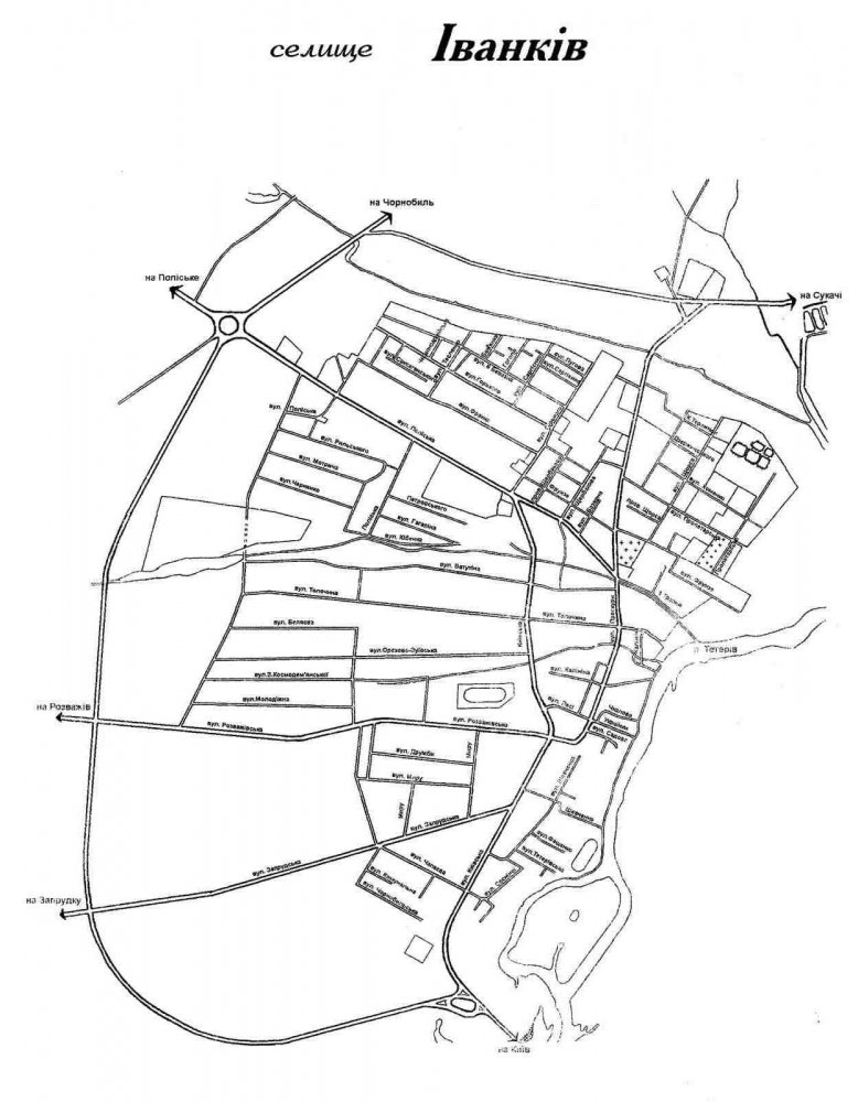 Sketch map of Ivankiv, Kyiv region, Ukraine.